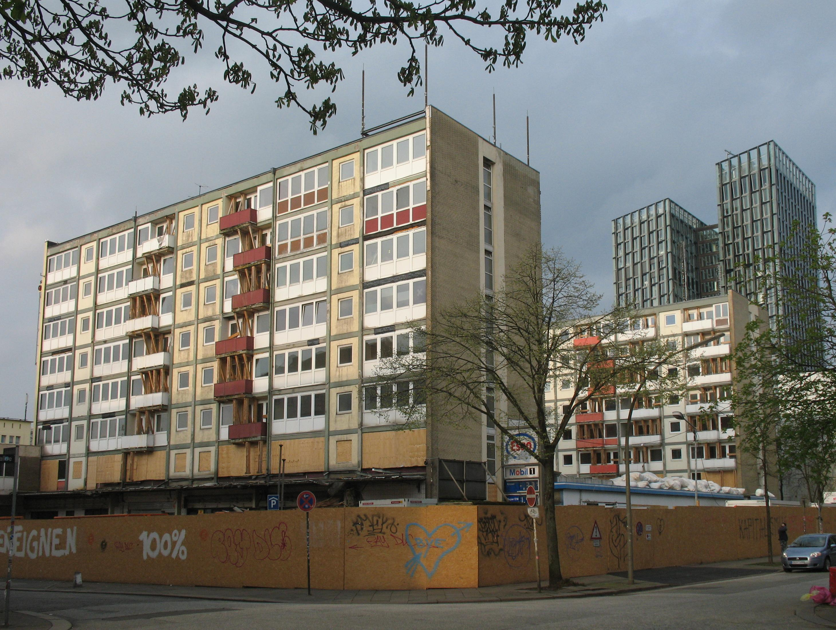 Esso buildings in Hamburg-St. Pauli, Germany